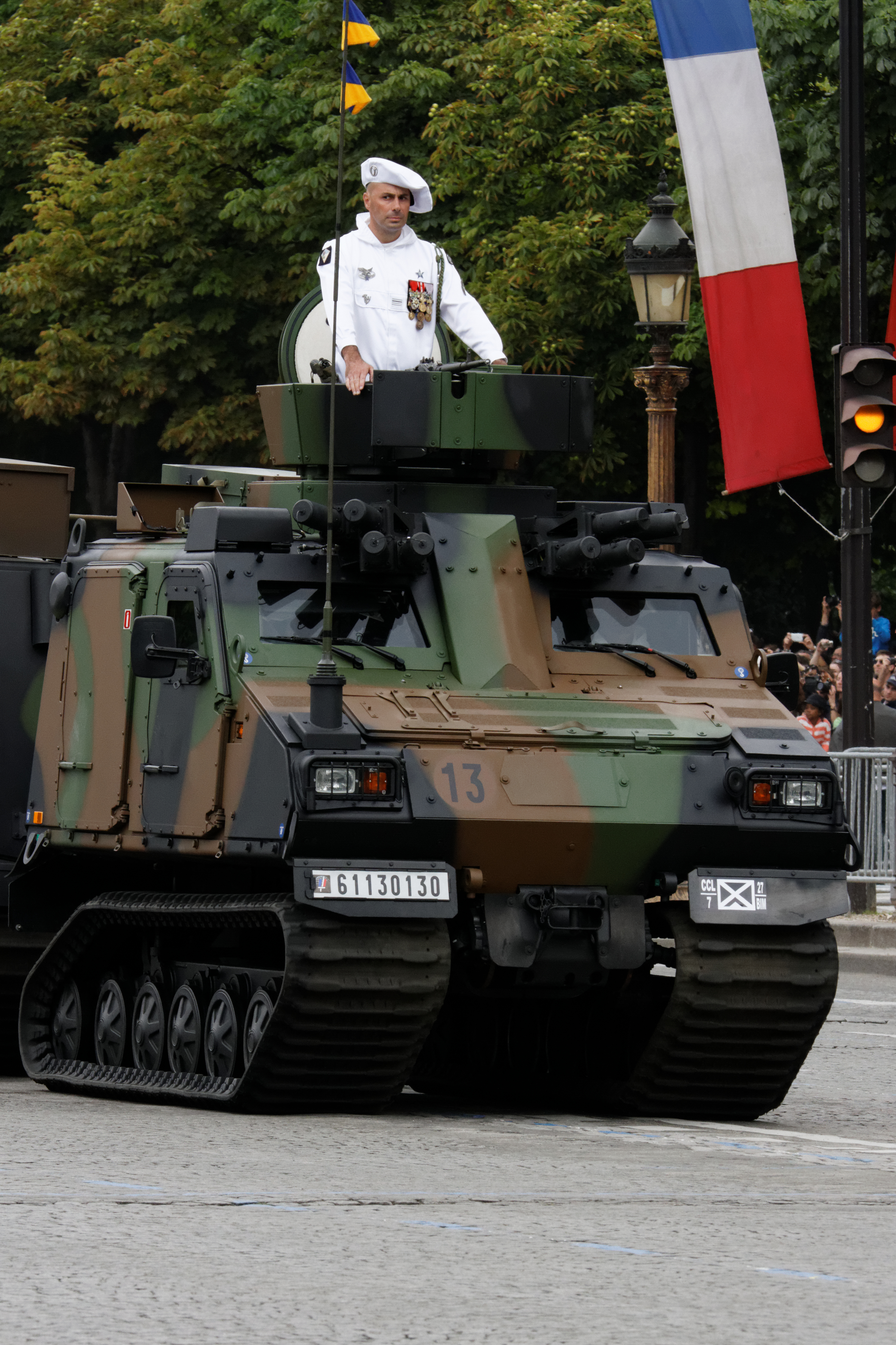 Bastille Day 2014 military parade on the Champs-Élysées in Paris. Motorised troops.